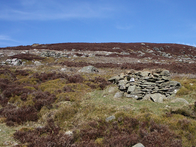 Shooting butts on grouse moor. A line of shooting butts follows the hillside down into Glen Fender.